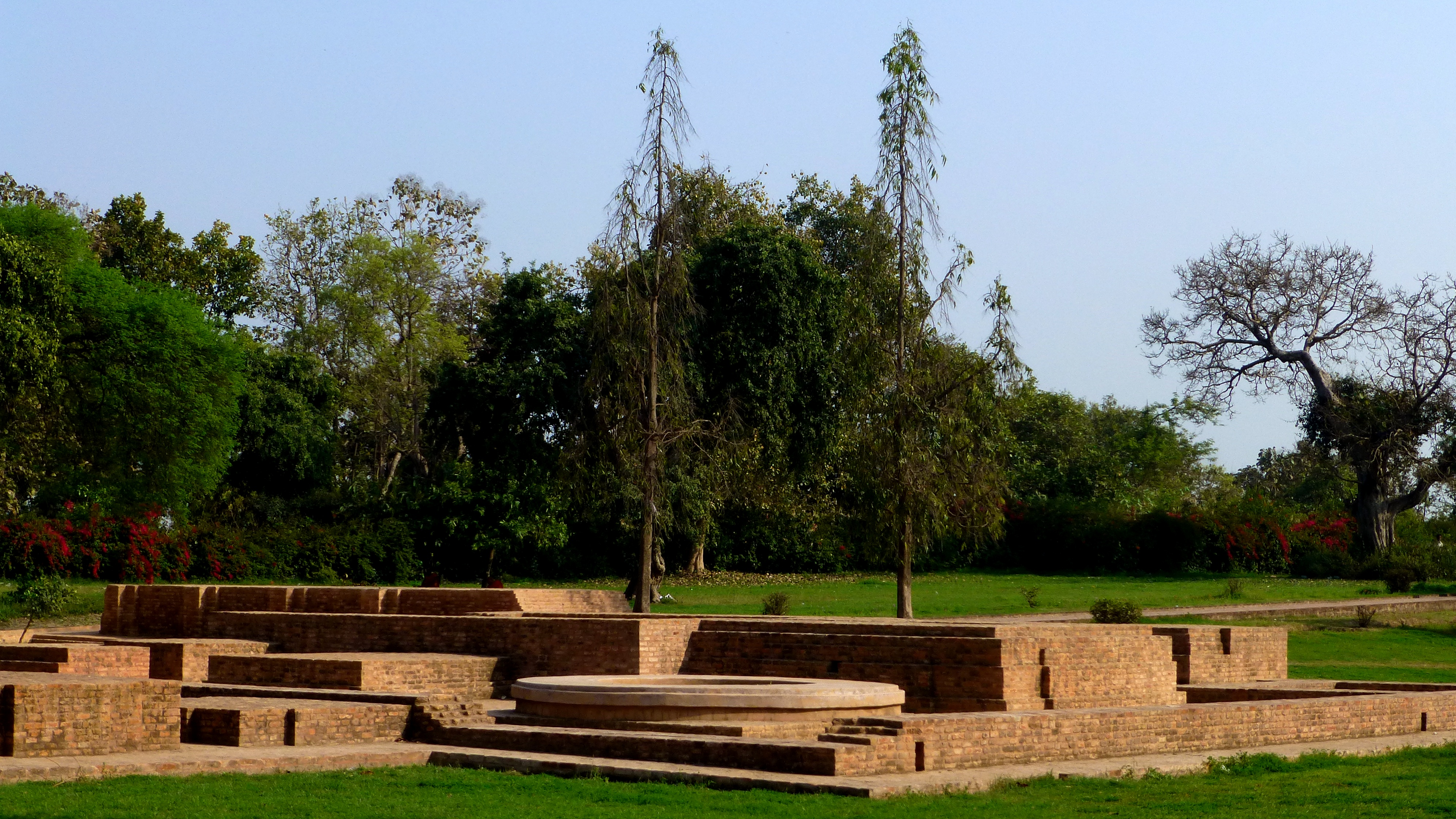 38 Buildings, Shravasti. Photograph of the Jetavana monastery at Shravasti in Pradesh taken by Anandajoti.